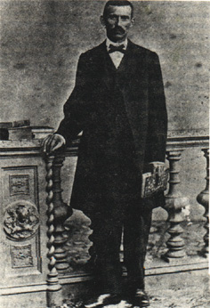 Ivan Nikolov Momchilov (1819–1869) – Bulgarian educator